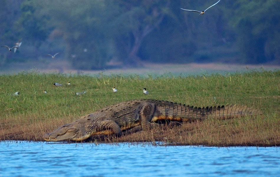 Indian marsh crocodile / mugger on the banks of the Kabini river